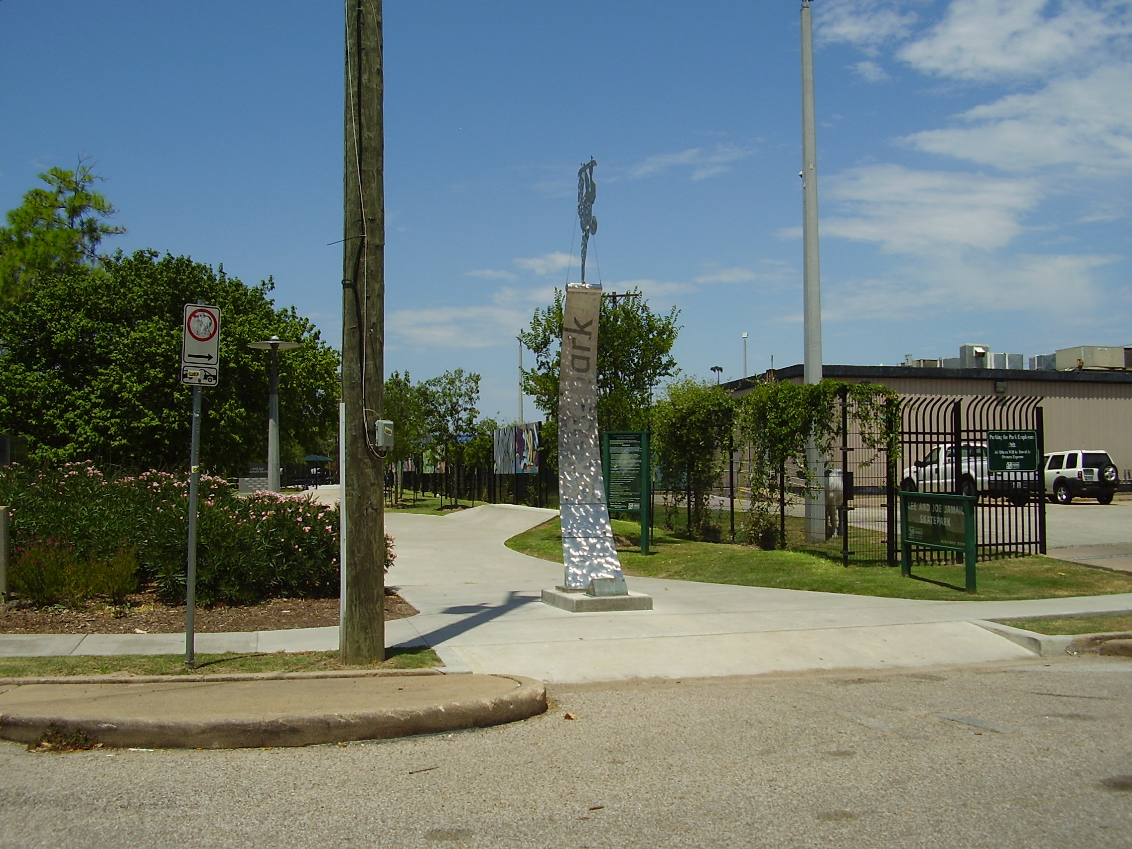 Lee and Joe Jamail Skate Park